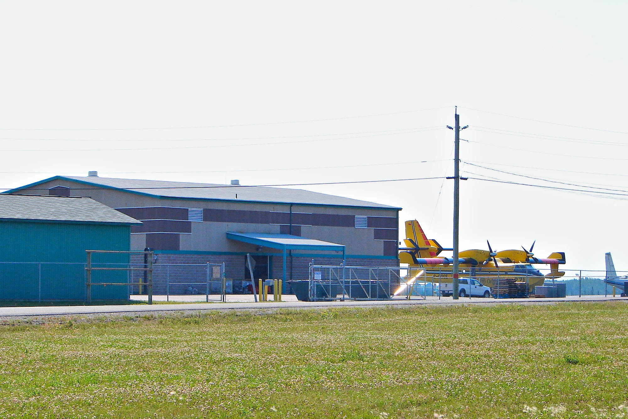 Greenstone MNR Base at the regional airport, north of Geraldton, Ontario, Canada